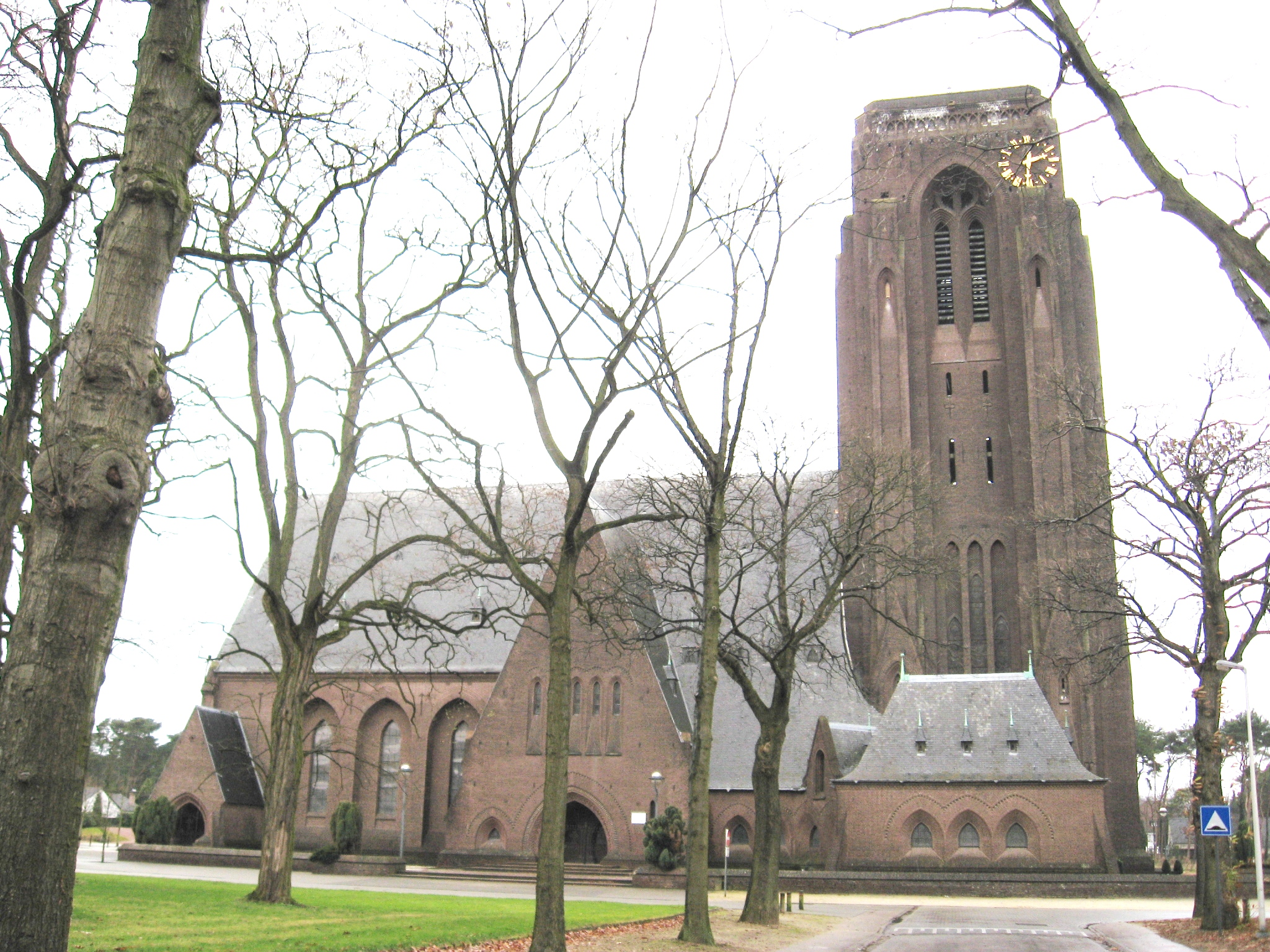 "Mine cathedral" of Saint Barbara in Eisden, Maasmechelen, Limburg, Belgium